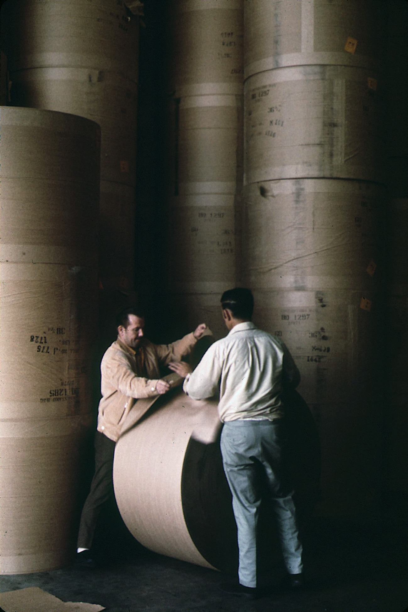 Rolls of finished newsprint at Macmillan-Bloedel Ltd. in the Fraser River Valley, British Columbia, Canada.